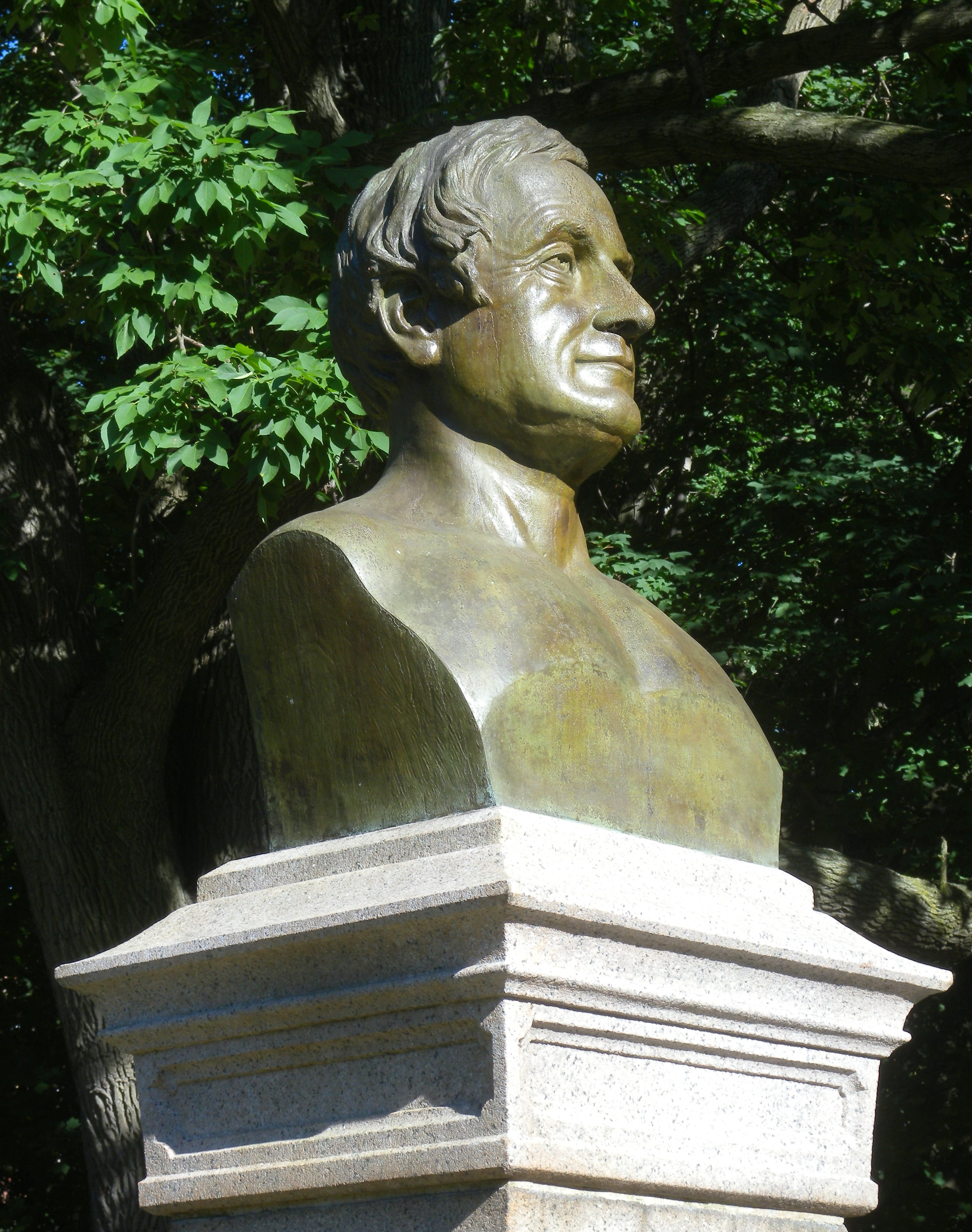 Looking southeast at bust of Washington Irving in Brooklyn, New York, on a sunny afternoon. Sculptor: James Wilson Alexander MacDonald (1824–1908).